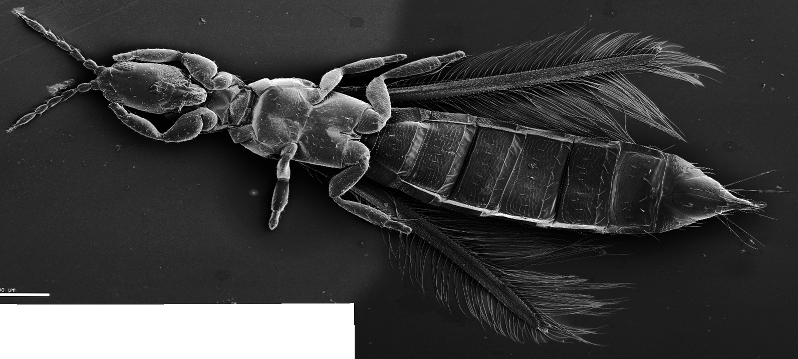 A thrips which was unfortunate enough to land in my sample just as I was preparing it for microscopy.